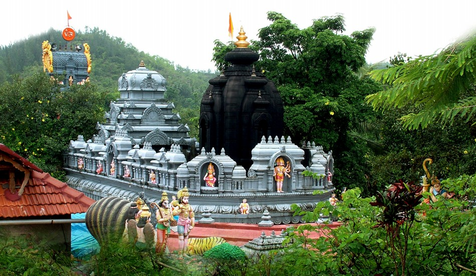 ಒಡಿಯೂರು